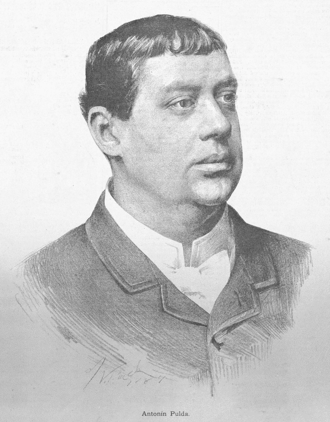 Portrait of Antonín Pulda, Czech actor